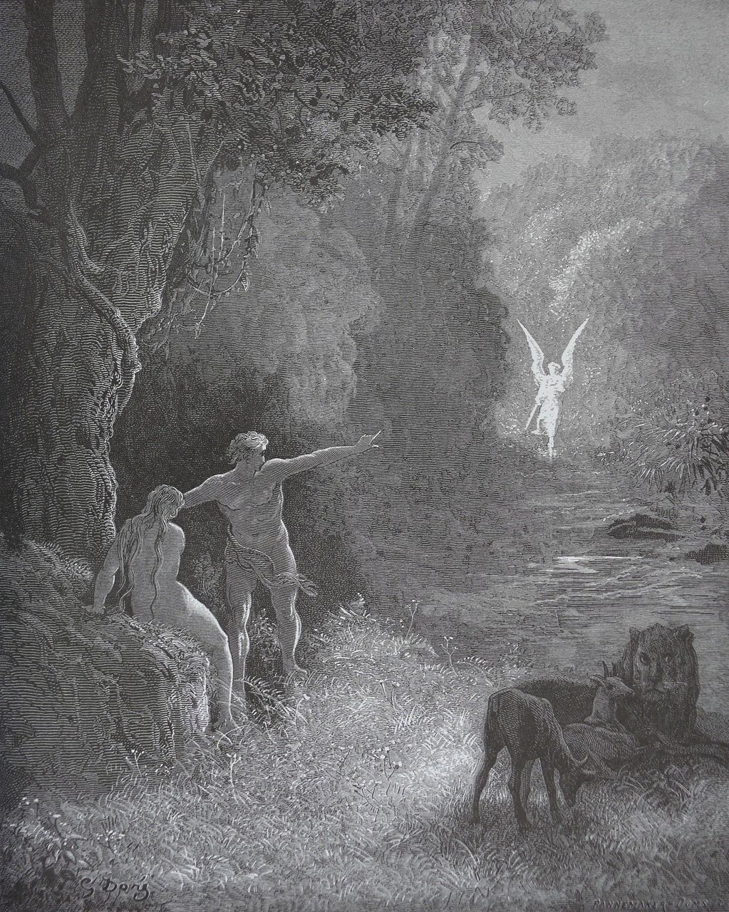 Illustration for John Milton’s “Paradise Lost“ by Gustave Doré